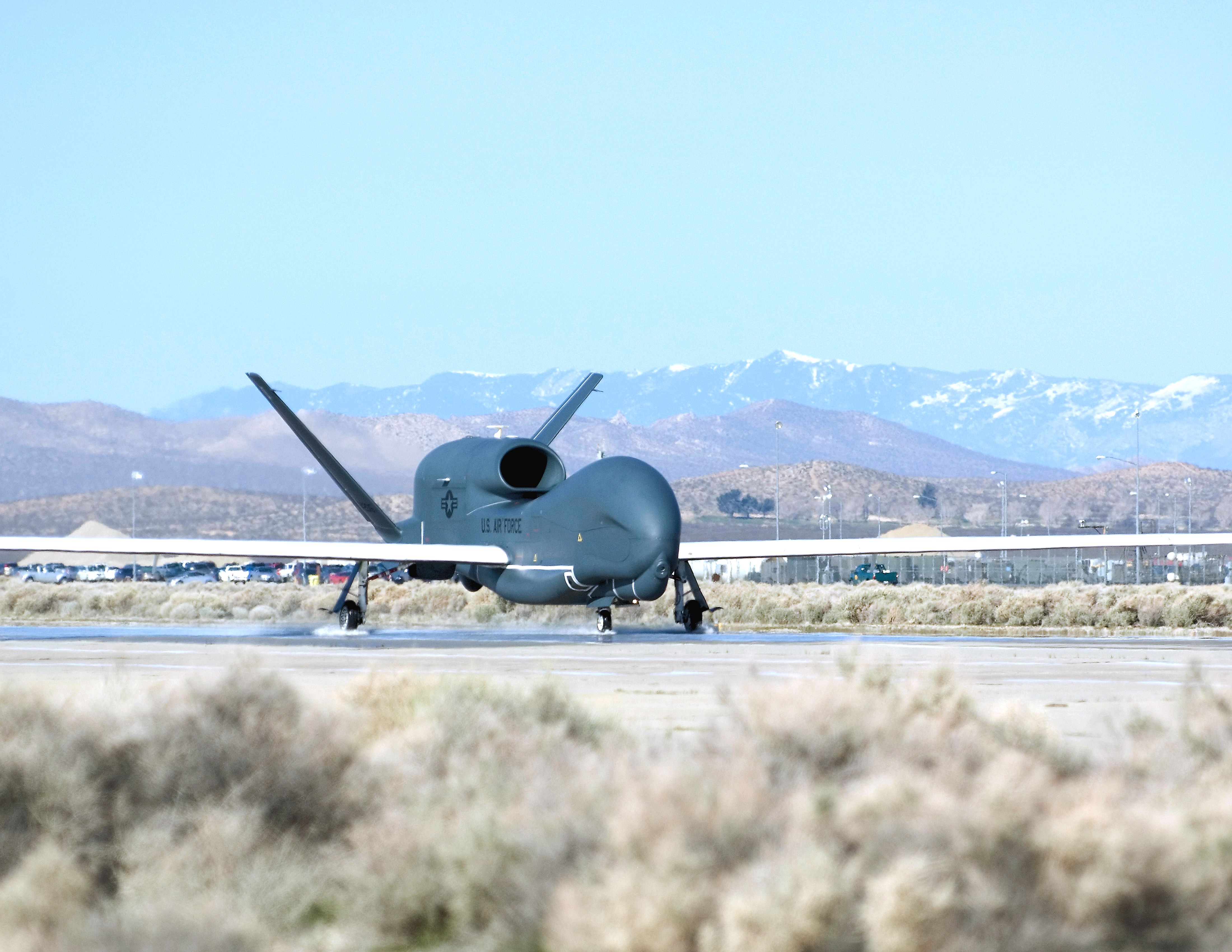 A RQ-4B Global Hawk completes a wet runway test March 12. 452nd Flight Test Squadron will wrap up its Block 20 wet runway testing around the beginning of April. (Courtesy photo)